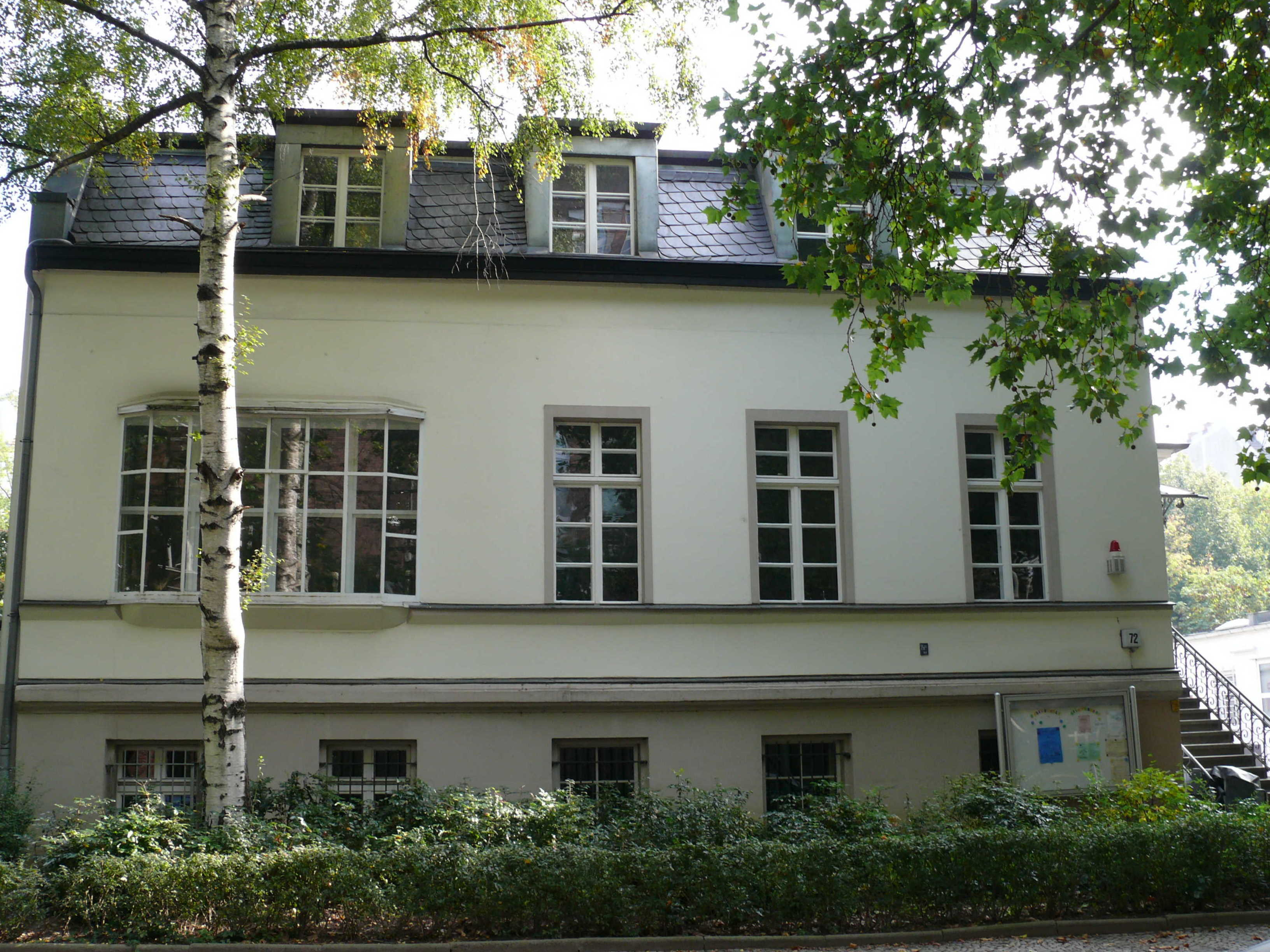 Berlin-Wilmersdorf Prinzregentenstraße